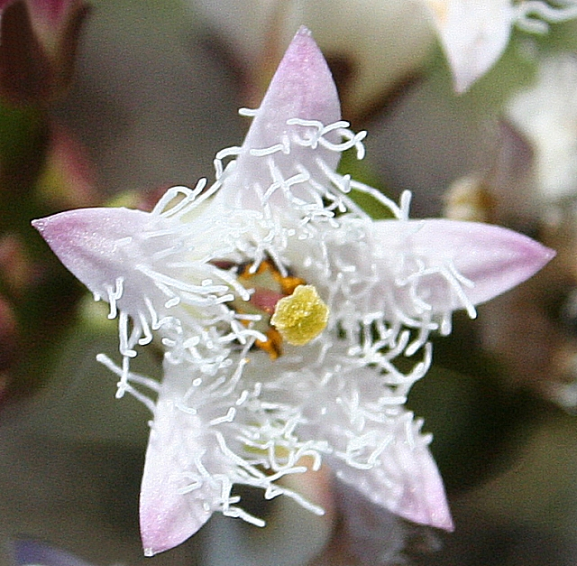 Bog Bean (Menyanthes trifoliata). A close-up view of a single flower, showing the fleshy petals and thick hairs. 820626 shows a whole plant.